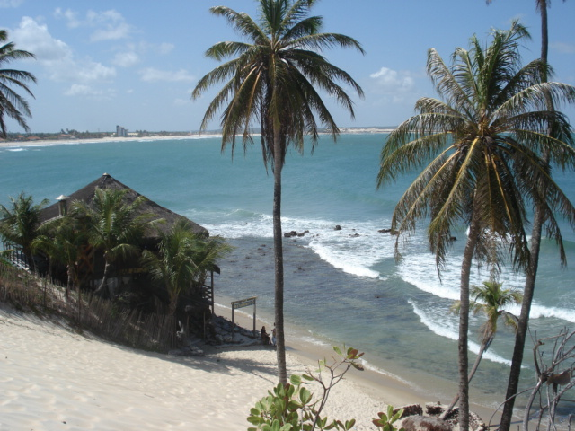 Genipabu - Rio Grande do Norte - Brazil